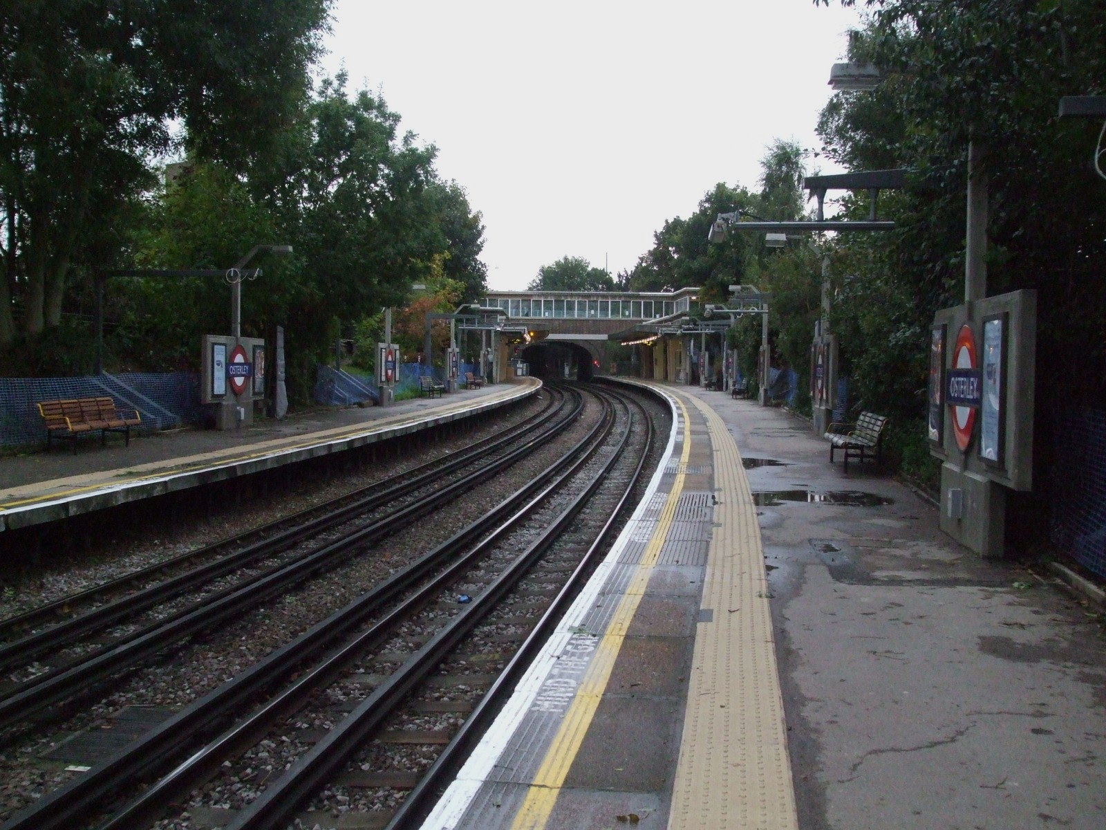 Osterley tube station looking west